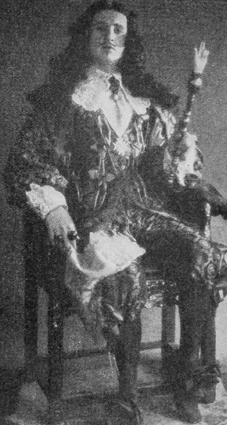 Photo of Arthur Lubin as Louis III from the film Bardelys the Magnificent.